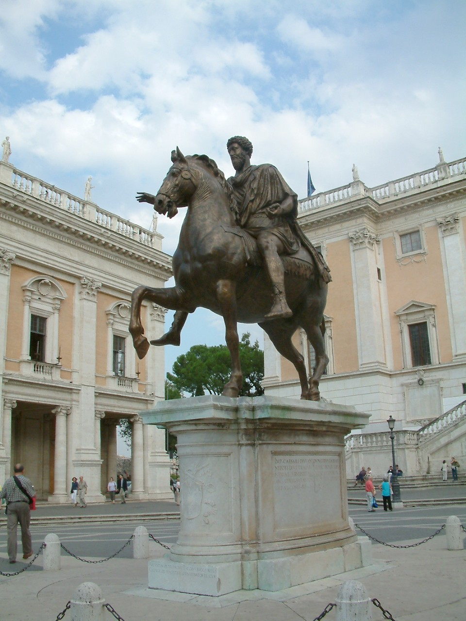 The copy of the statue of Marcus Aurelius on the Capitol in Rome. The original can be found in the museum behind.